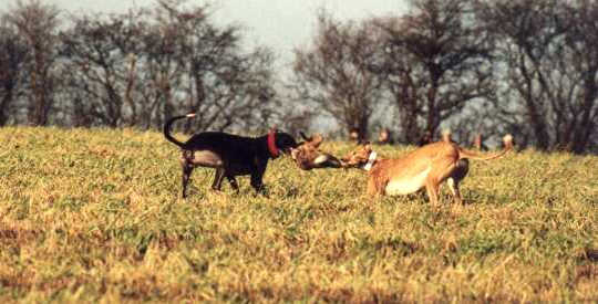 Two greyhounds that have captured a hare.